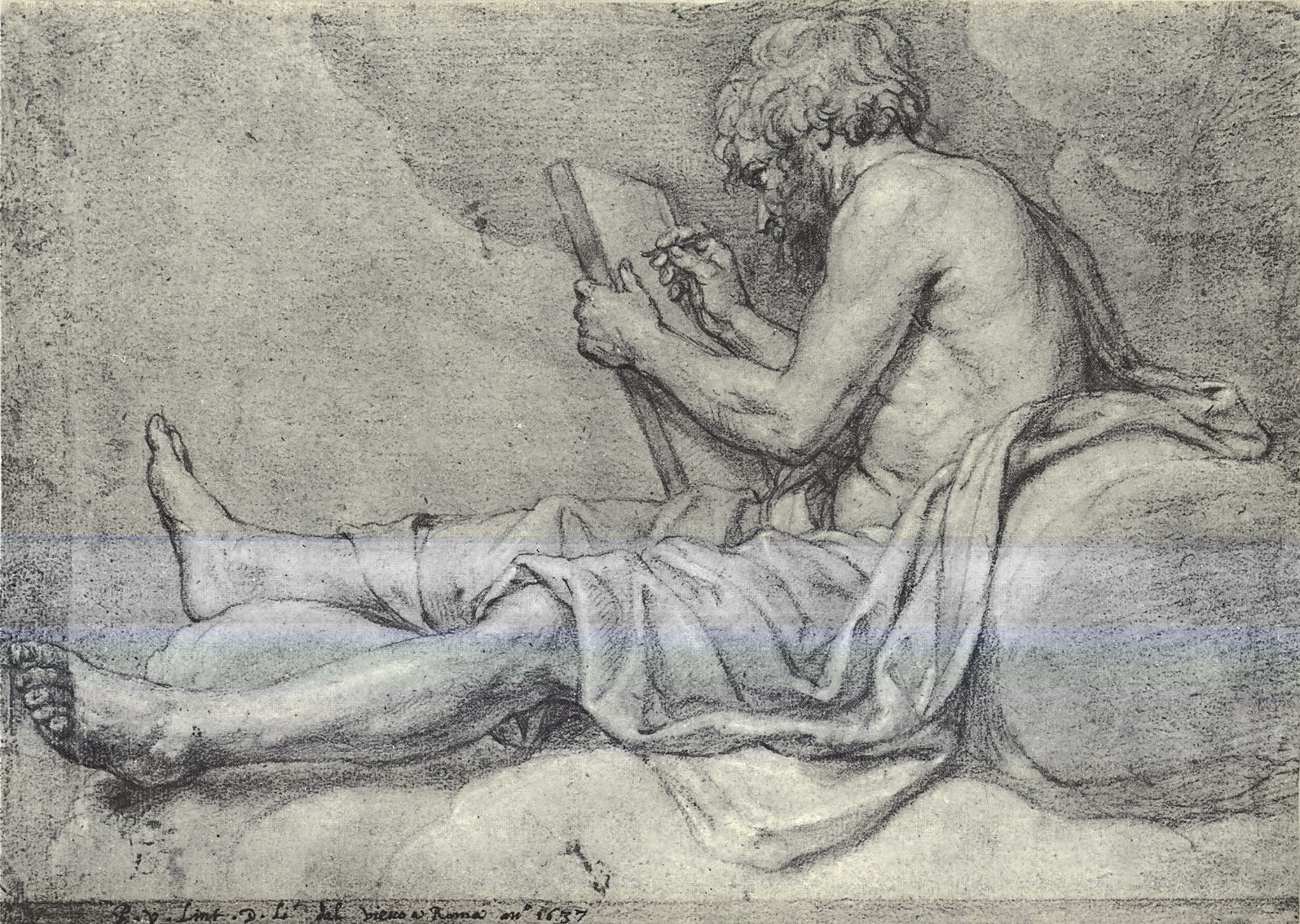 Preparatory study for the lunette fresco of Jonah in the Cybo-Soderini Chapel in Santa Maria del Popolo